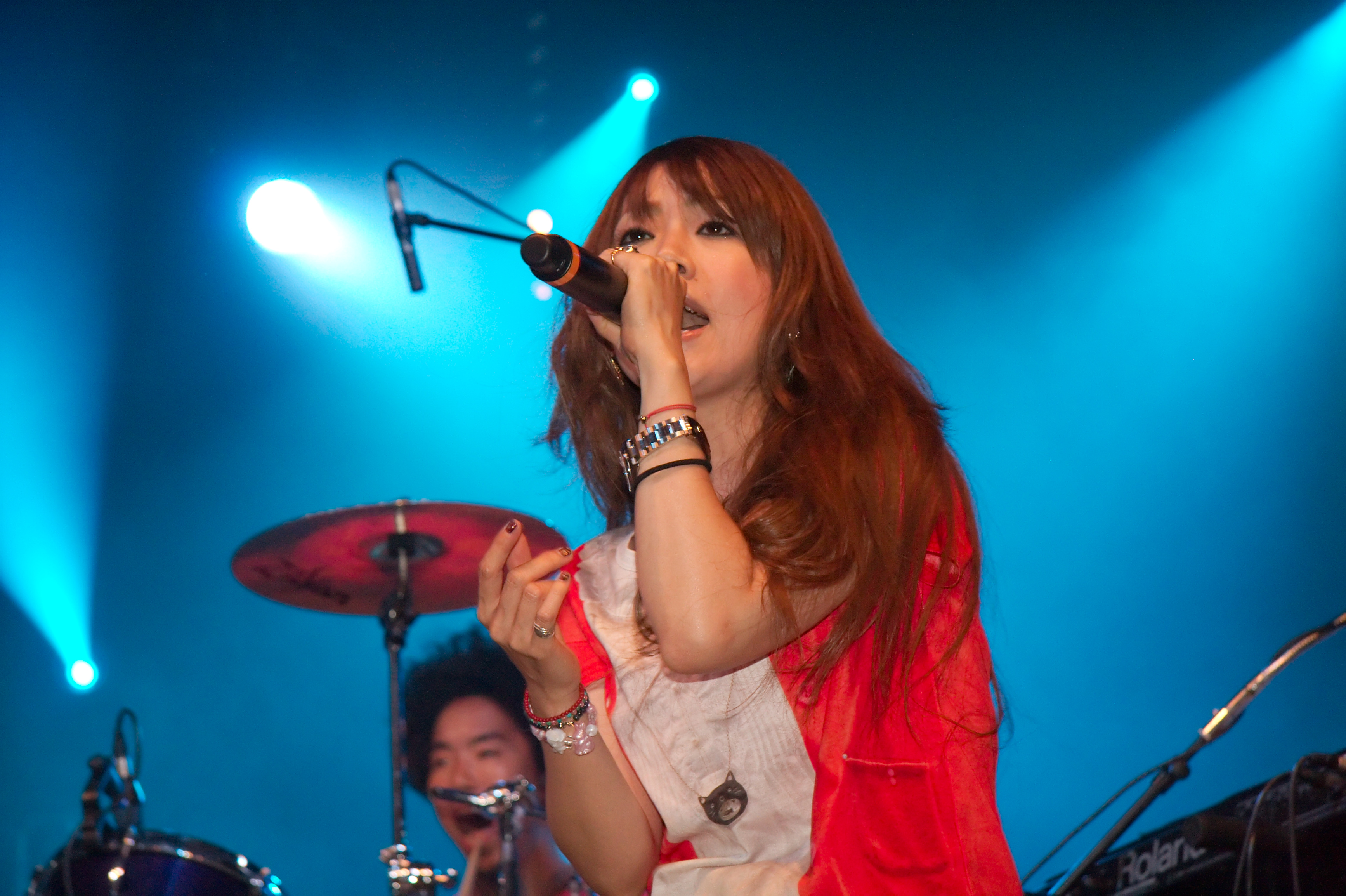 Puffy AmiYumi live at Japan Expo 2009 (Paris, France)